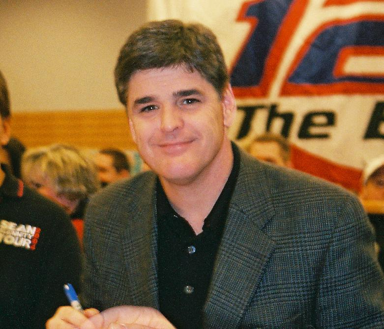 Sean Hannity at King of Prussia Mall, PA